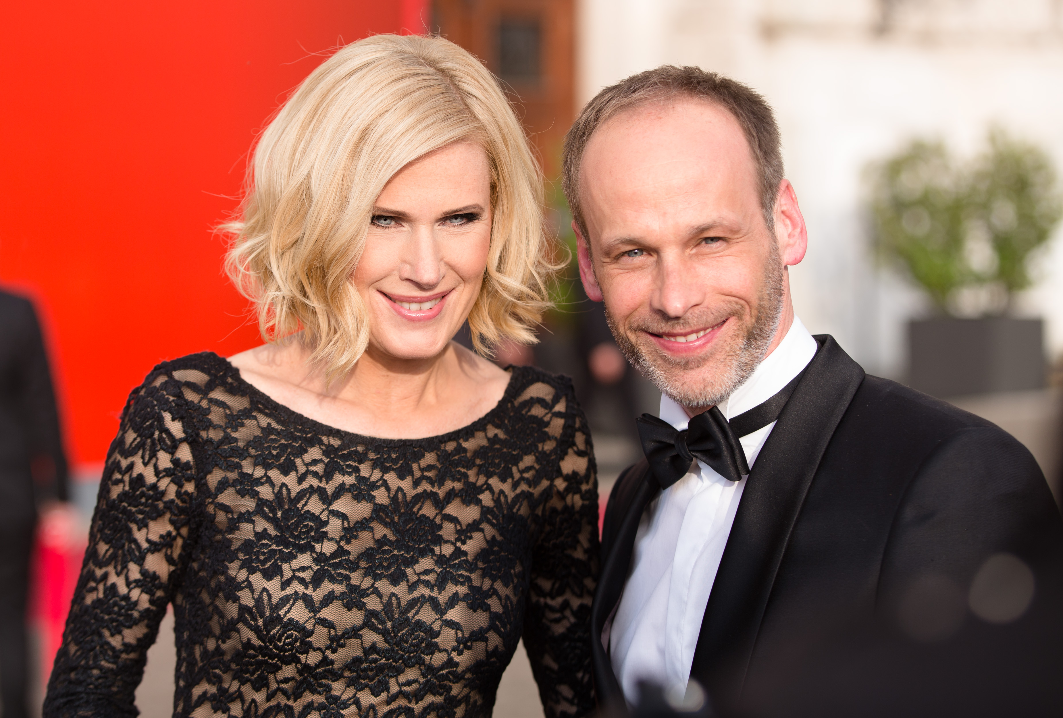 Sylvia Saringer and Marcus Wadsak on the red carpet of the Romy TV awards 2016 at Hofburg Palace in Vienna, Austria.